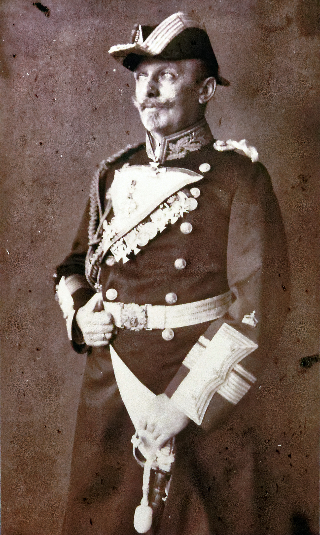 Portrait of the German Admiral Alexander Meurer (1862-1948), Internationales Maritimes Museum Hamburg (IMMH)